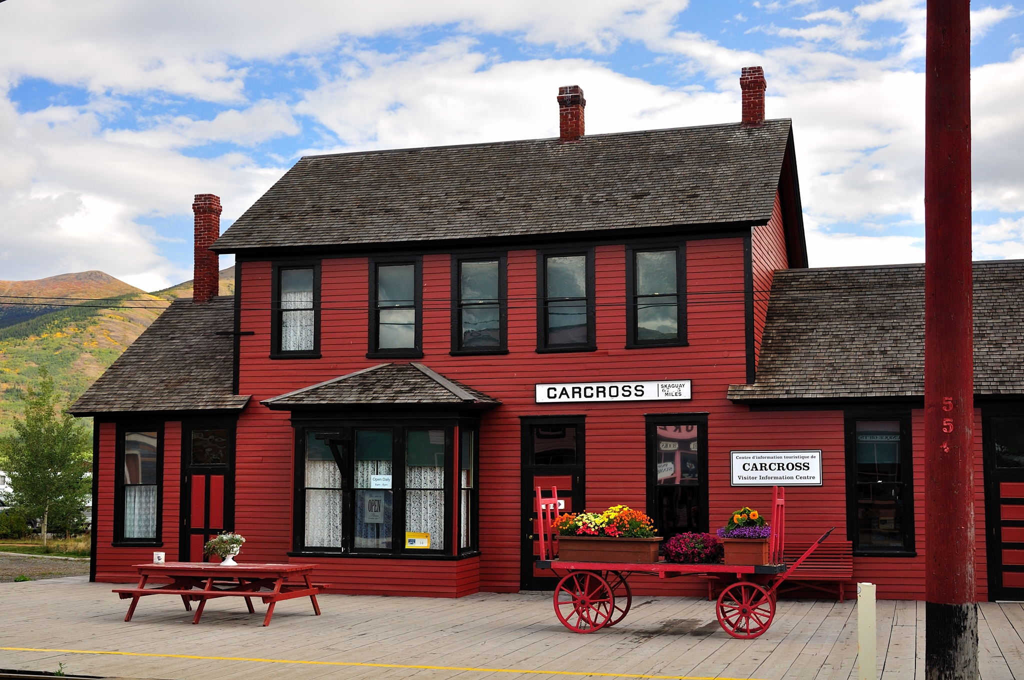 Carcross Depot, White Pass & Yukon RR, Carcross, Yukon, Canada